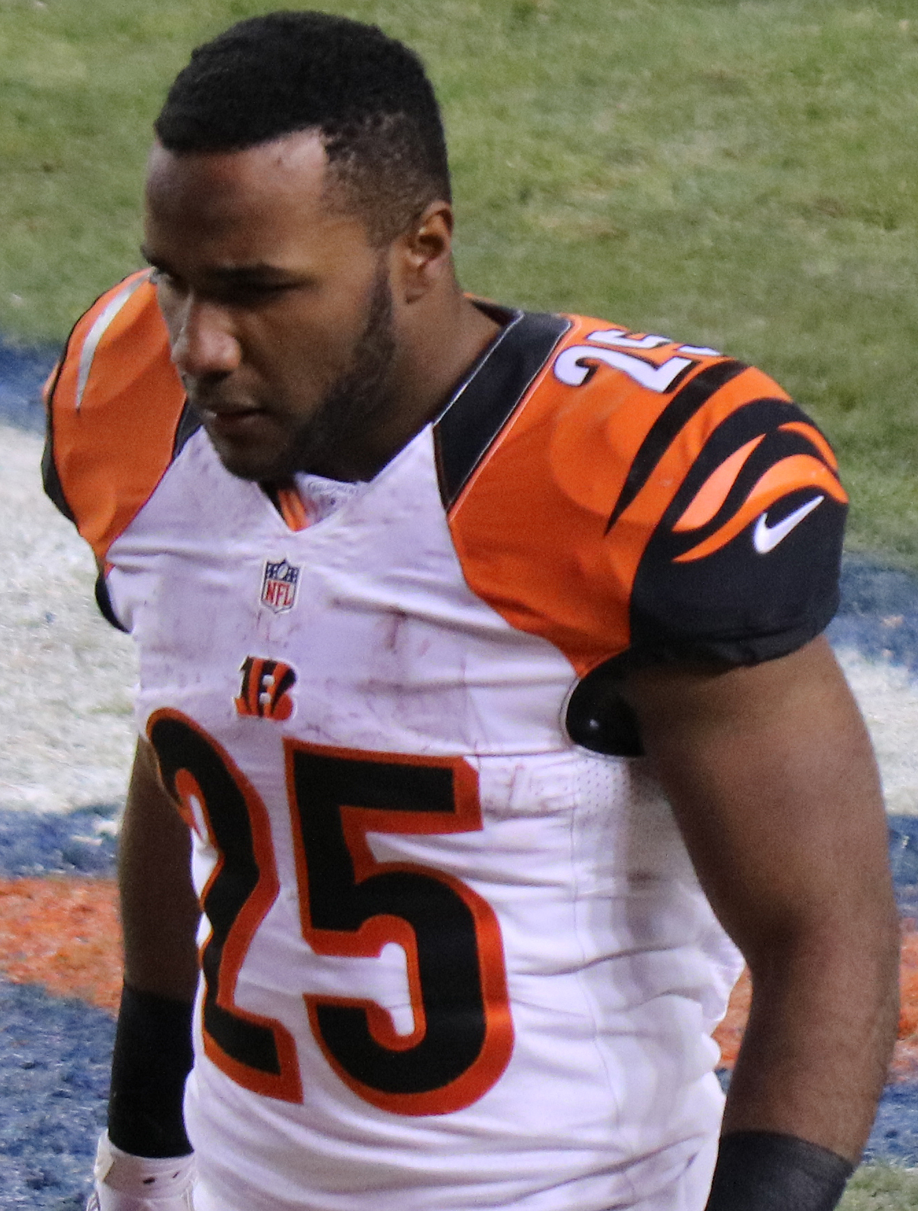 Giovani Bernard, a player on the National Football League.